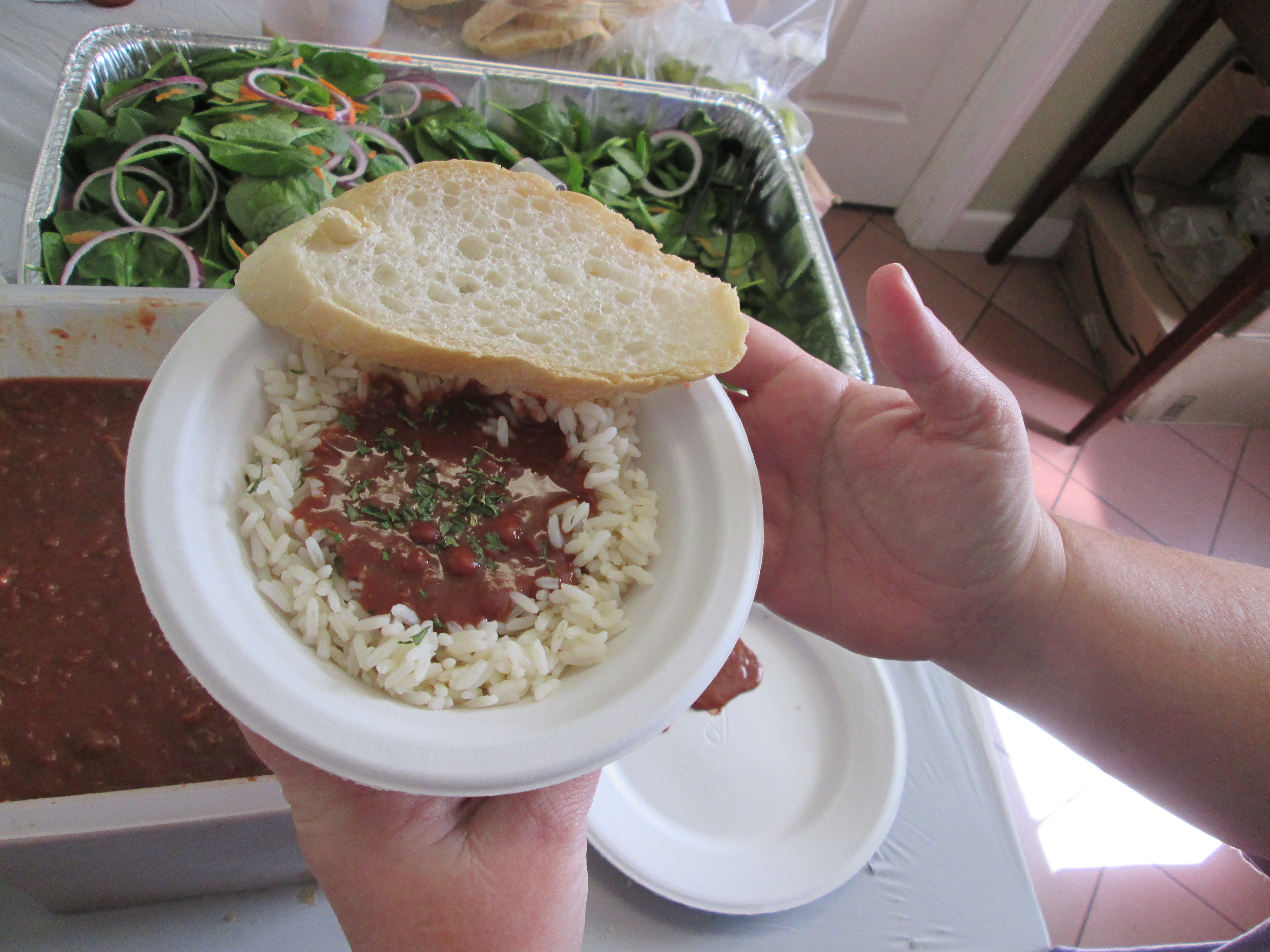 WWOZ studios in the French Quarter of New Orleans during the fall funddrive. Food in the break room. Red beans & rice